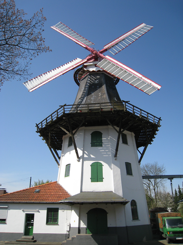 The Horner Mühle (“Windmill in Horn”) built 1849 in Horn-Lehe, Bremen, Germany.